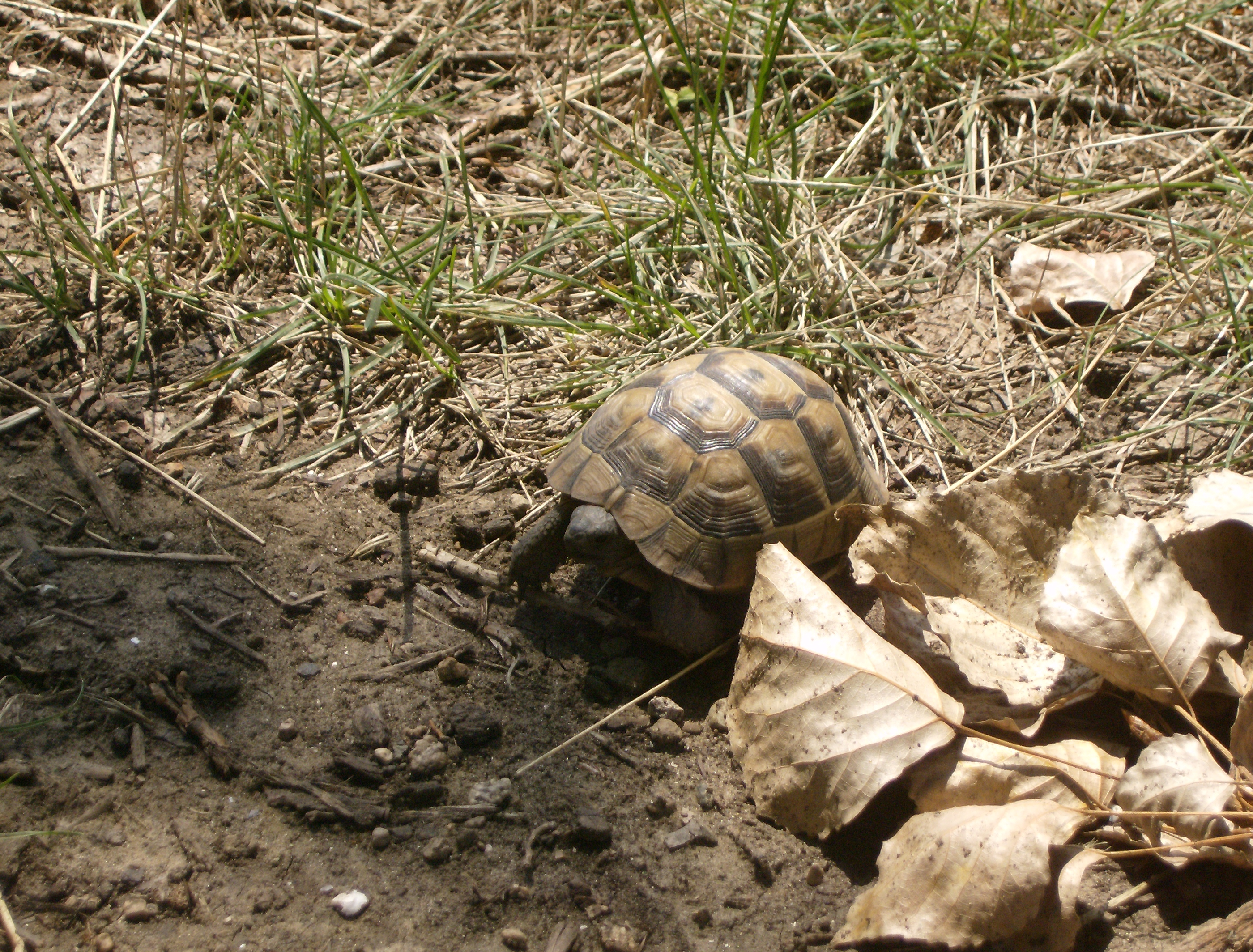 Ropotamo (Nature Reserve)